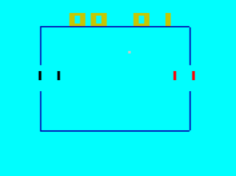 Screenshot of Interton game #3 Ballspiele . Simple Pong-like game, Ineligible to be copyrighted